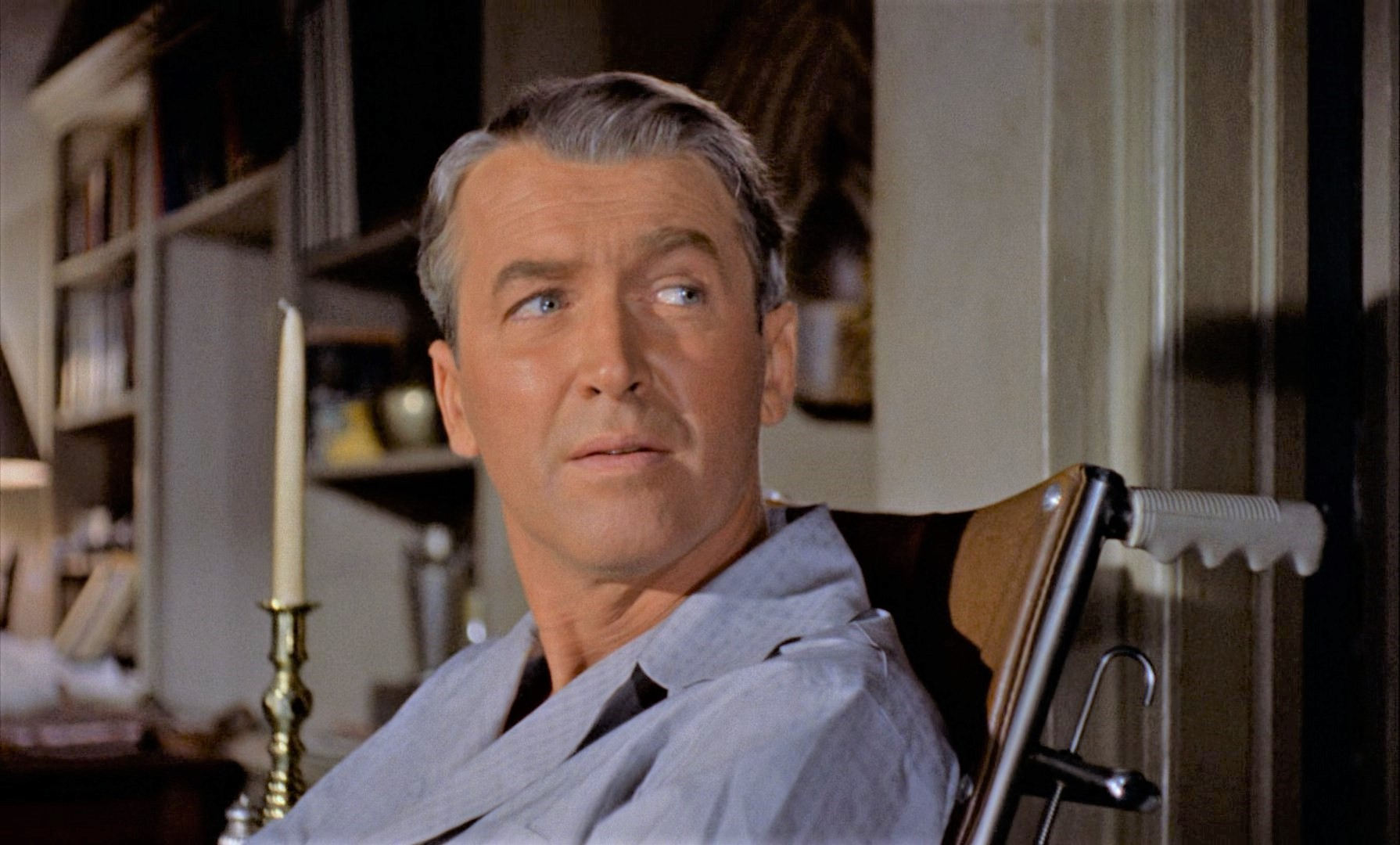 Cropped screenshot of James Stewart from the trailer for the film Rear Window